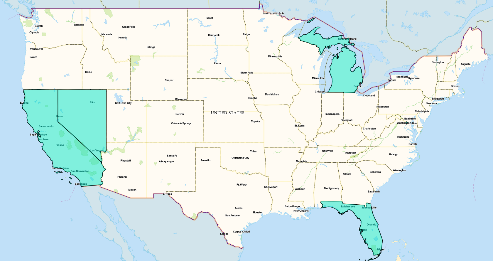 US States With Autonomous Car Legislation